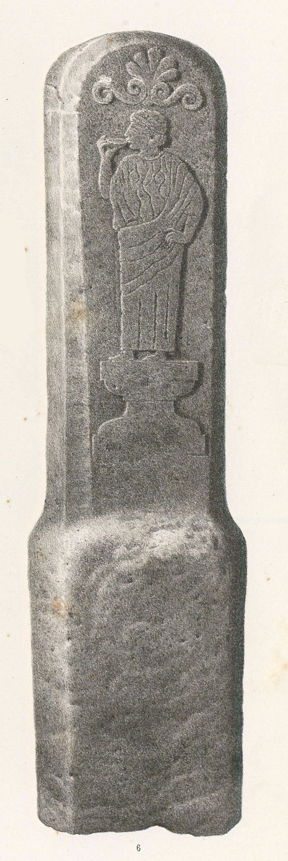 Funerary stela in stone, found at Marzabotto, Etruscan